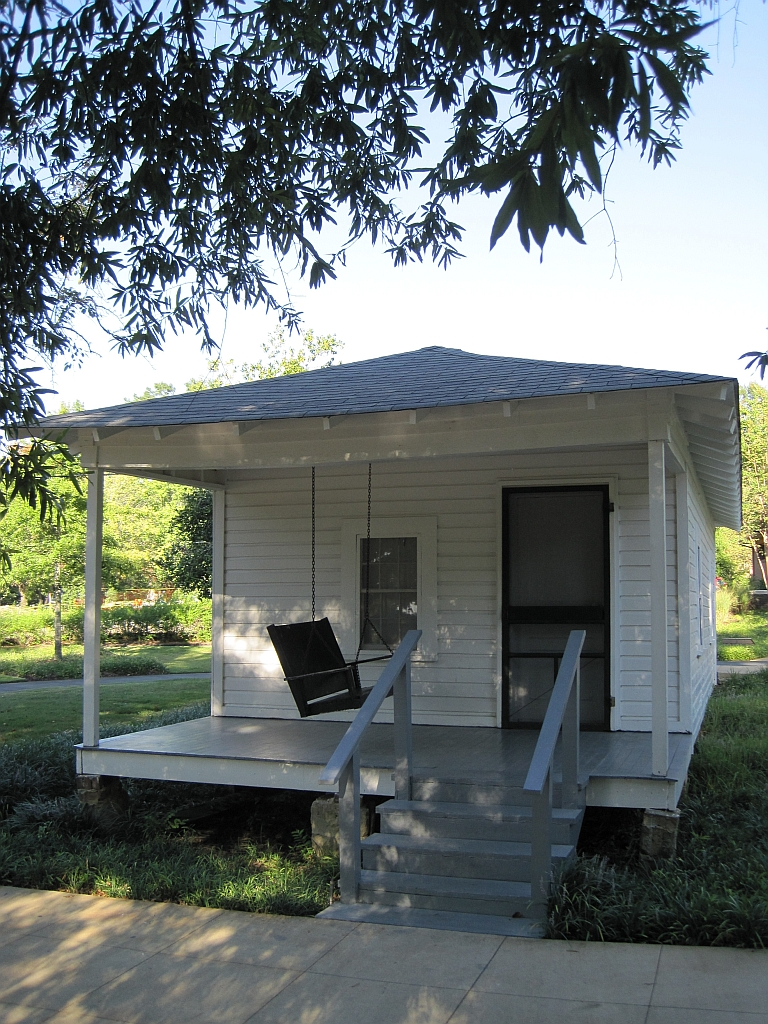 Tupelo, Mississippi. Elvis Presley's birthplace